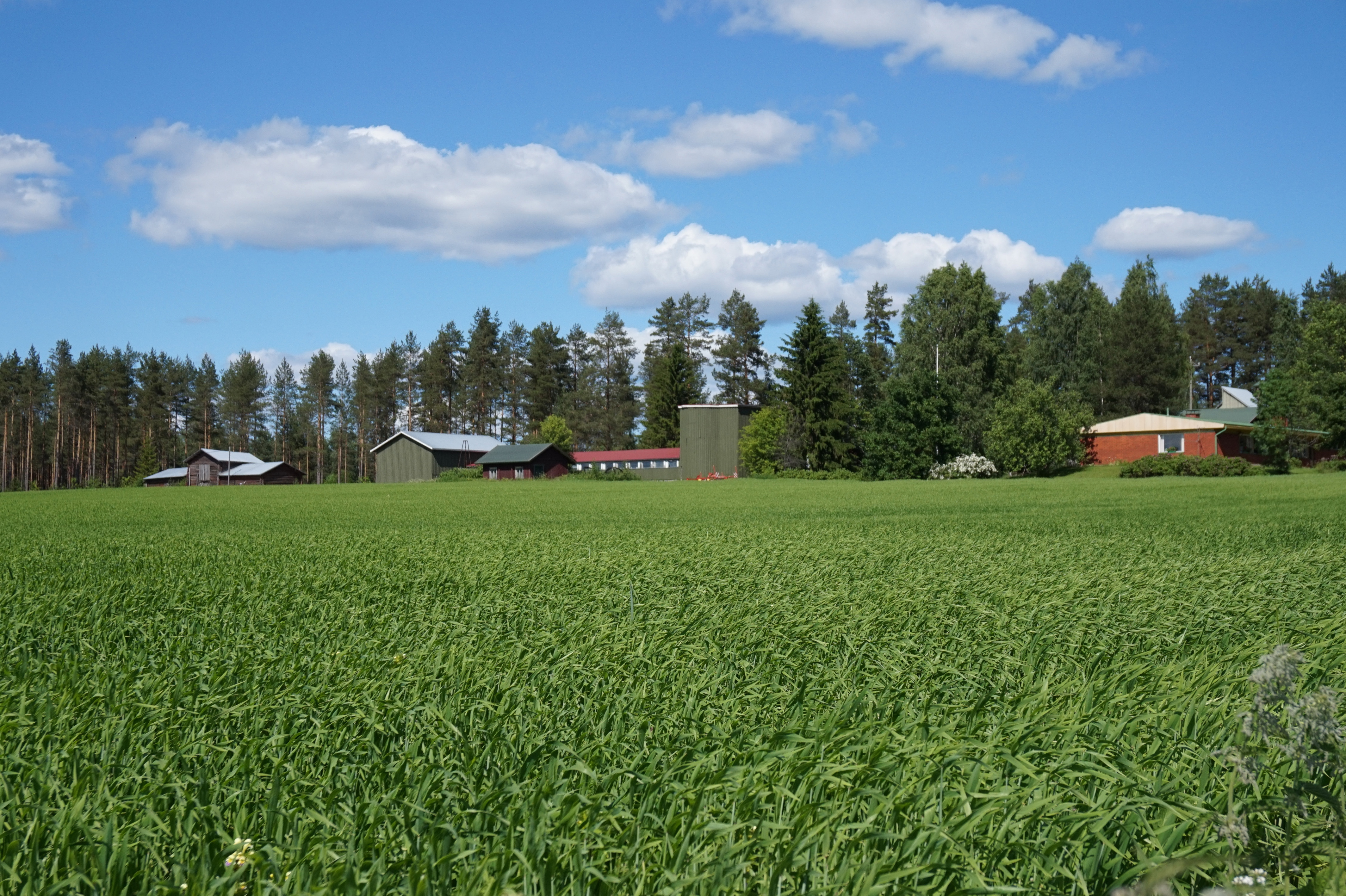 Field and buildings in Valkola, Laukaa.This photograph was taken with a Sony ILCE-5000